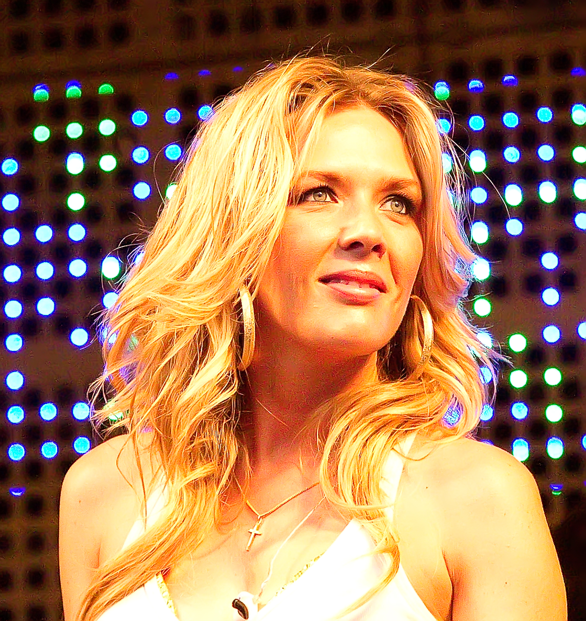 Silvy De Bie during a performance of Sylver at the Batjes 2010, Roeselare, Belgium